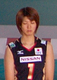 Megumi Kurihara. Nov 6, 2007 at 17:57 JST, Kadoma/Osaka. The national anthem of Japan being played before an event.